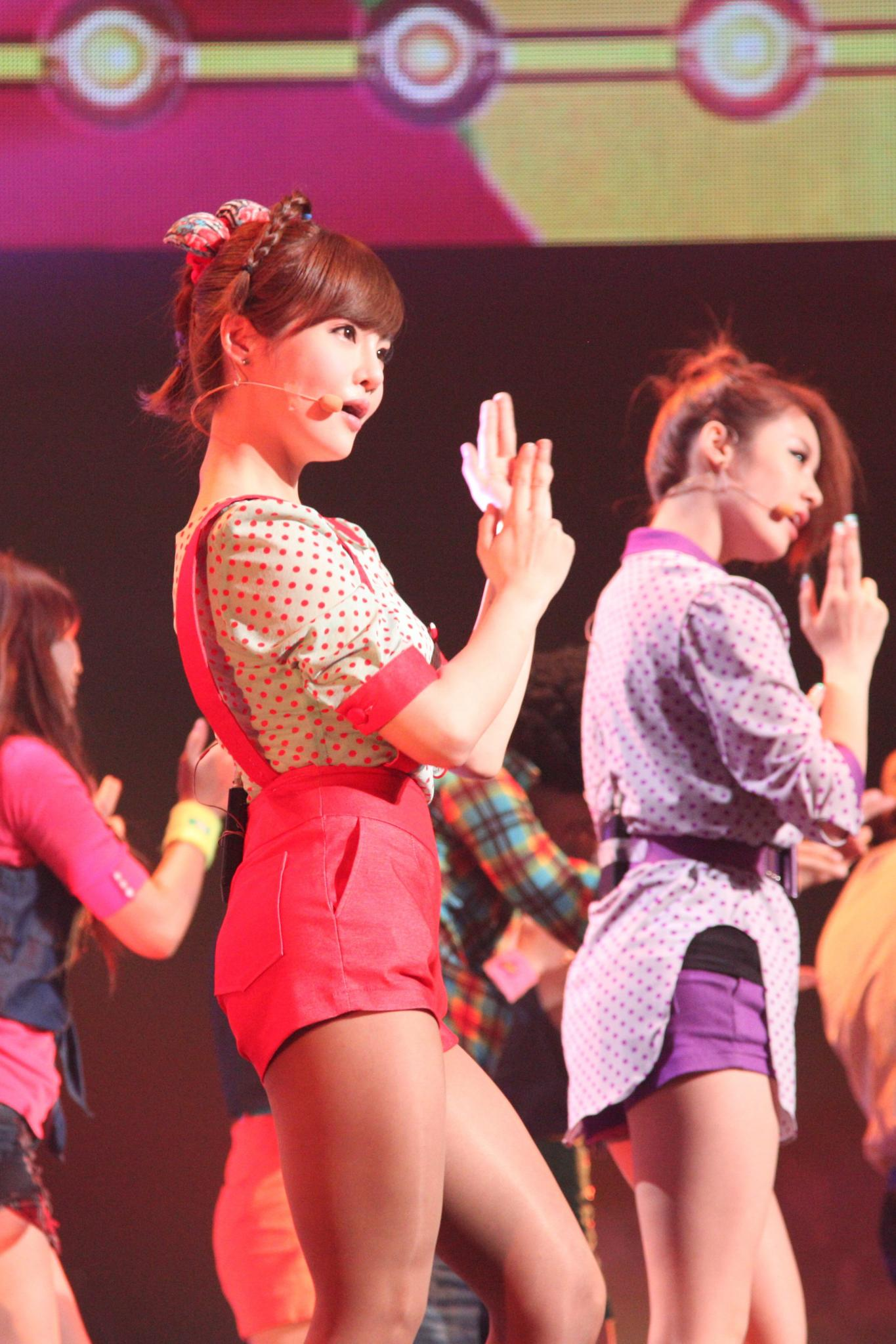 티아라 @ Cyworld Dream Music Festival 싸이월드 드림 뮤직 페스티벌_16